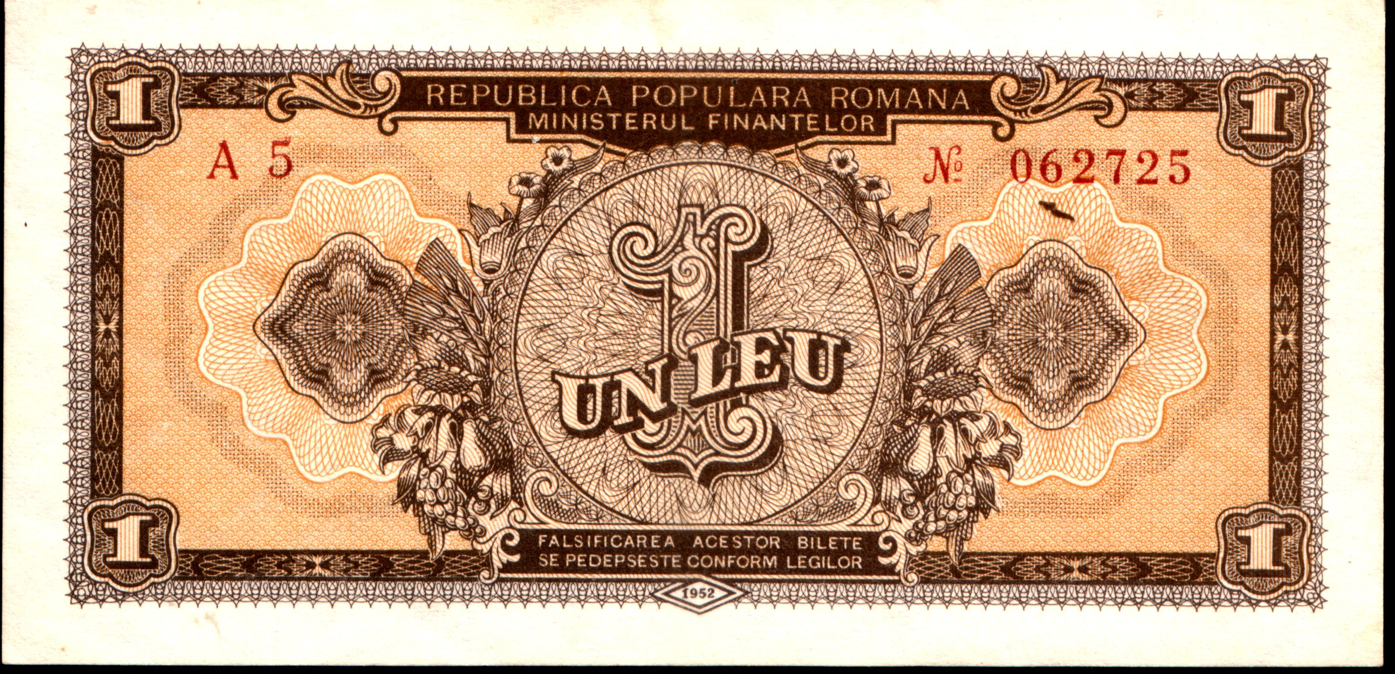 1 Romanian leu from 1952 - obverse